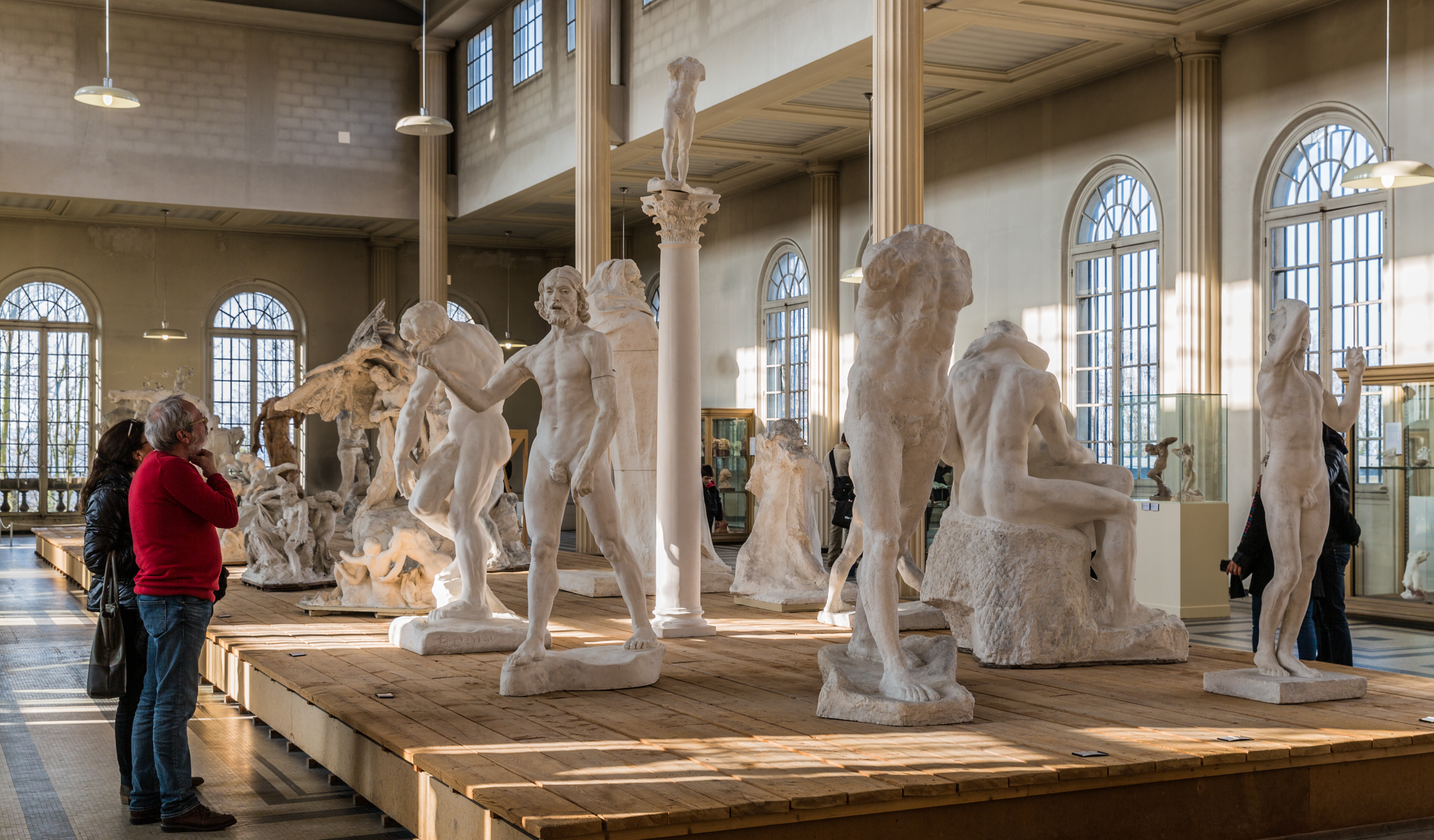 Atelier of Rodin in Meudon